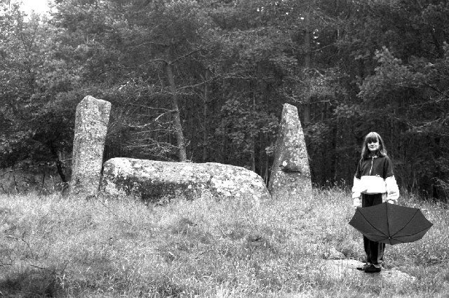 Cothiemuir stone circle. Recumbent and flankers of 3rd millennium BC moon circle.